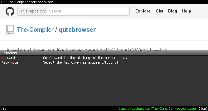 A screenshot of qutebrowser This program is free software: you can redistribute it and/or modify it under the terms of the GNU General Public License as published by the Free Software Foundation, either version 3 of the License, or (at your option) any later version. This program is distributed in the hope that it will be useful, but WITHOUT ANY WARRANTY; without even the implied warranty of MERCHANTABILITY or FITNESS FOR A PARTICULAR PURPOSE. See the GNU General Public License for more details. You should have received a copy of the GNU General Public License along with this program. If not